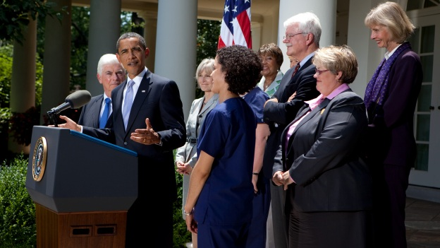 President Barack Obama, joined by members of the American Nurses Association in the Rose Garden, speaks about the need for health care reform.